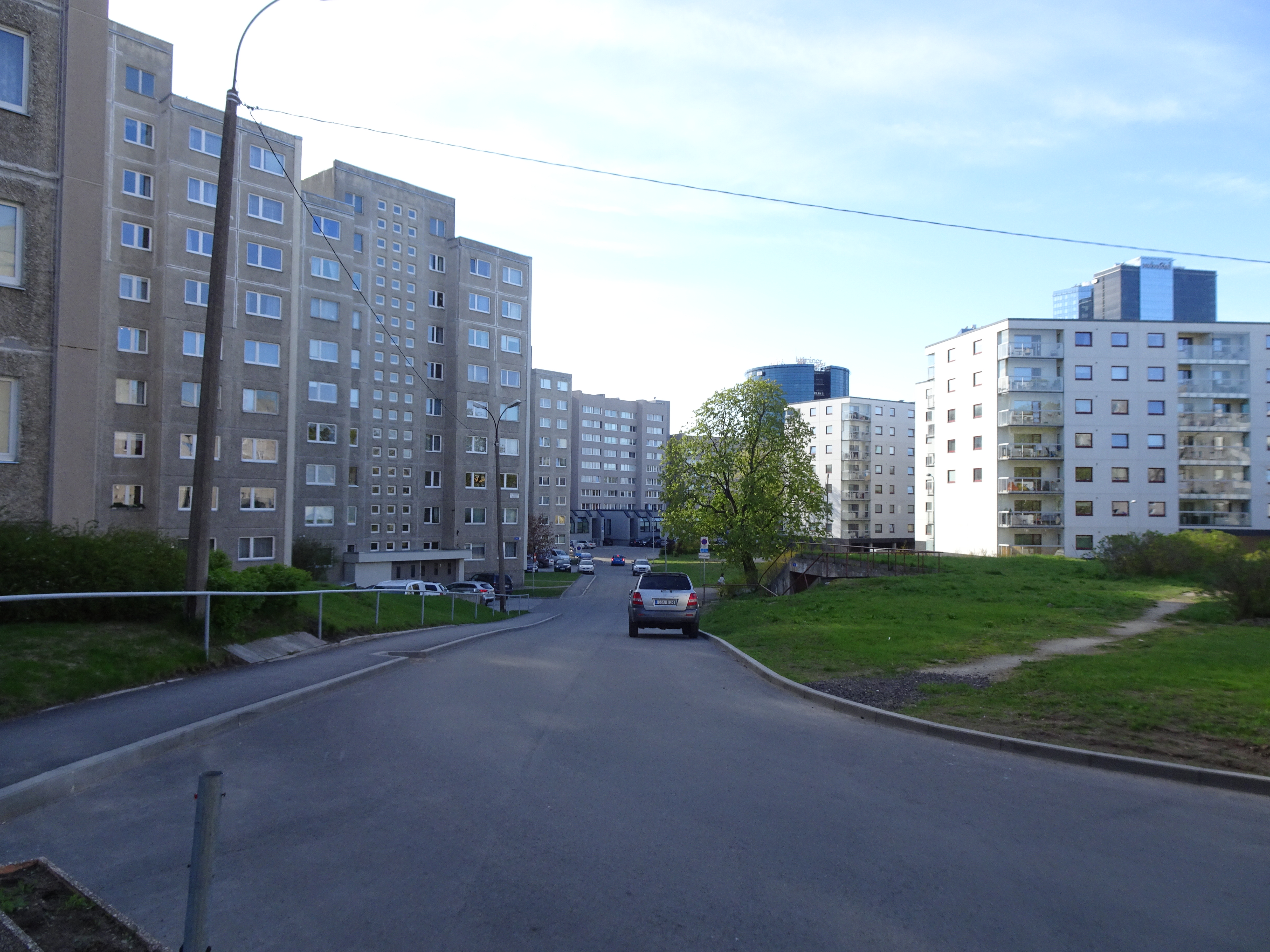 Võlvi Street in Tallinn